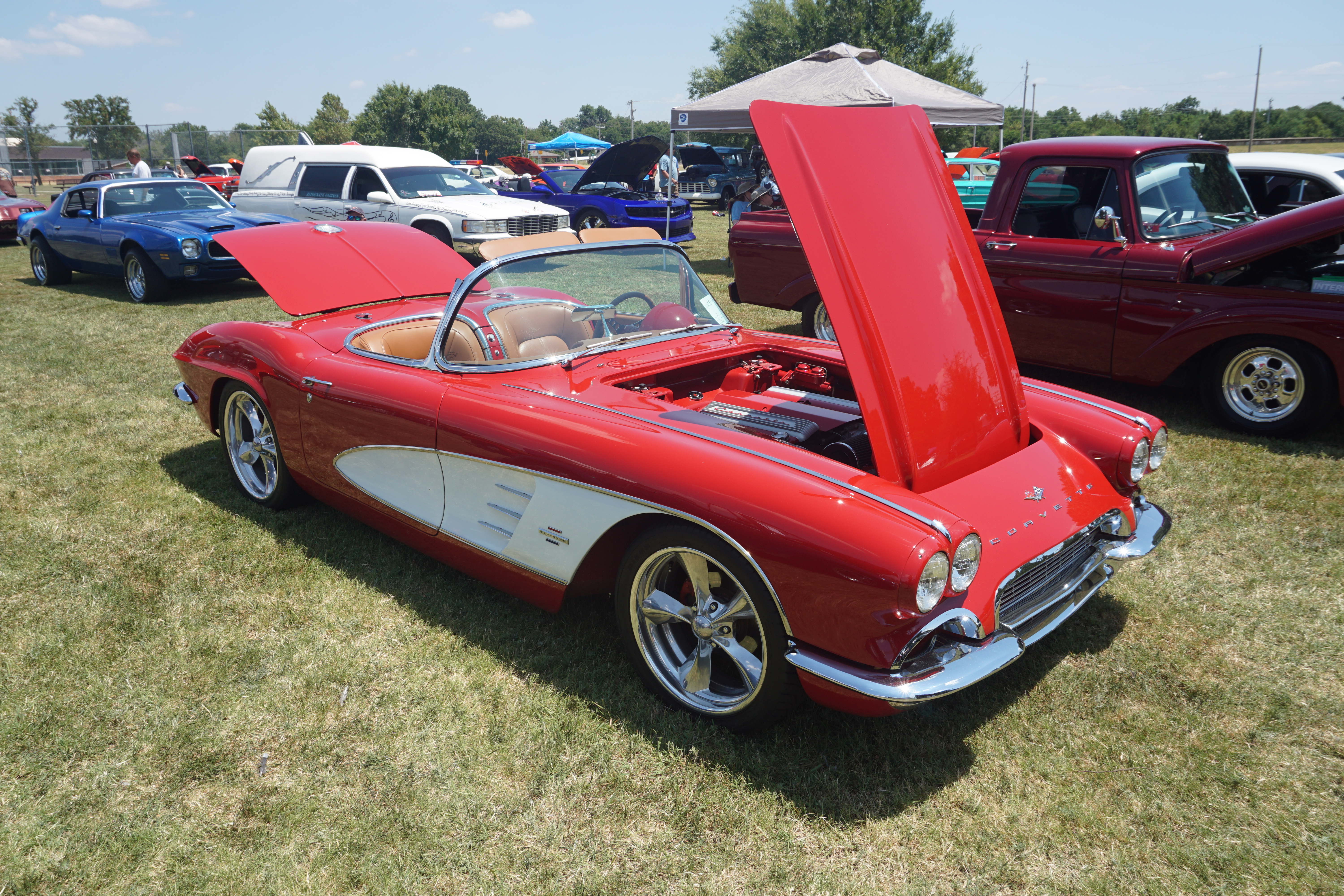 A 1961 Chevrolet Corvette at the 2019 Food & Shelter Car Show at Andrews Park in Norman, Oklahoma (United States).